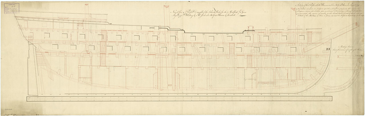 Plan showing the inboard profile, and miship section for 'Milford' (1809), a 74-gun Third Rate, two-decker, building at Milford Haven by Mr Jacobs.